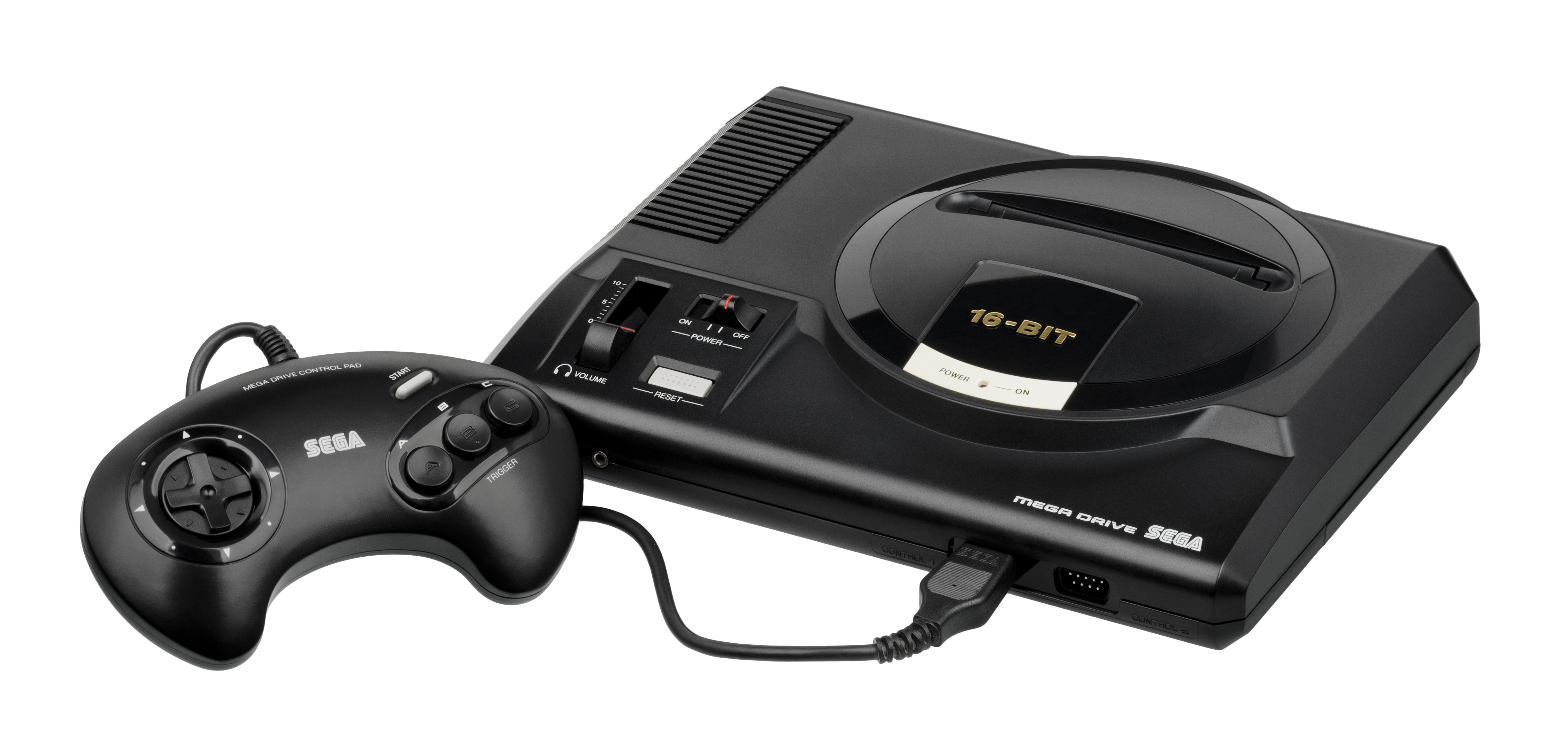 The Mega Drive, a fourth generation video game console by Sega. This is the PAL version of the console, which was first released in 1990 in Europe. The system shares the same name as the original Japanese version, which was renamed the Genesis when it was released in North America in 1989.